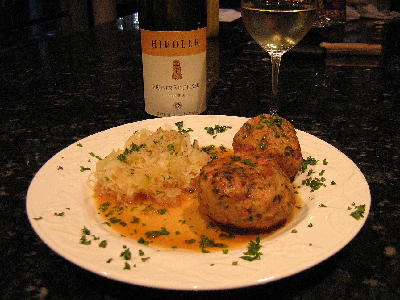 speckknodel